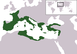 Map of Roman Republic under Julius Caesar. Made from the Blank Map World.